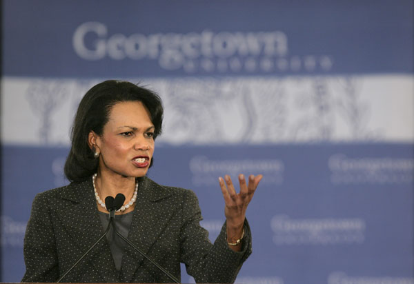 Secretary Condoleezza Rice gestures while speaking on "Transformational Diplomacy: Meeting the Challenge of the 21st Century," Wednesday, Jan. 18, 2006 before the the Georgetown School of Foreign Service.